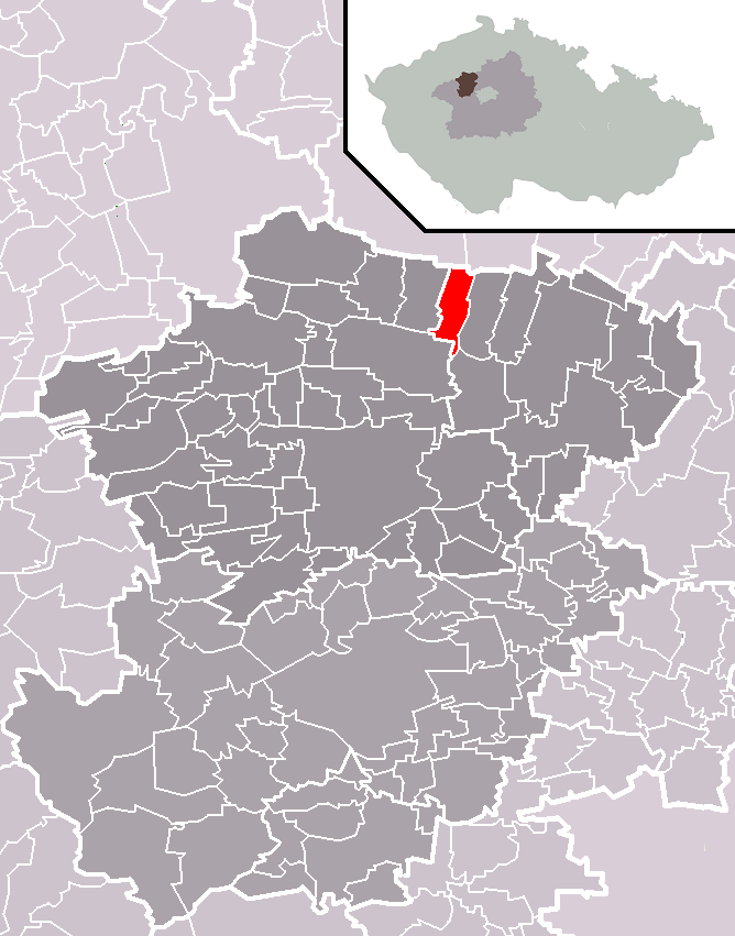 Location of Poštovice municipality within Kladno District and administrative area of Slaný as a Municipality with Extended Competence.